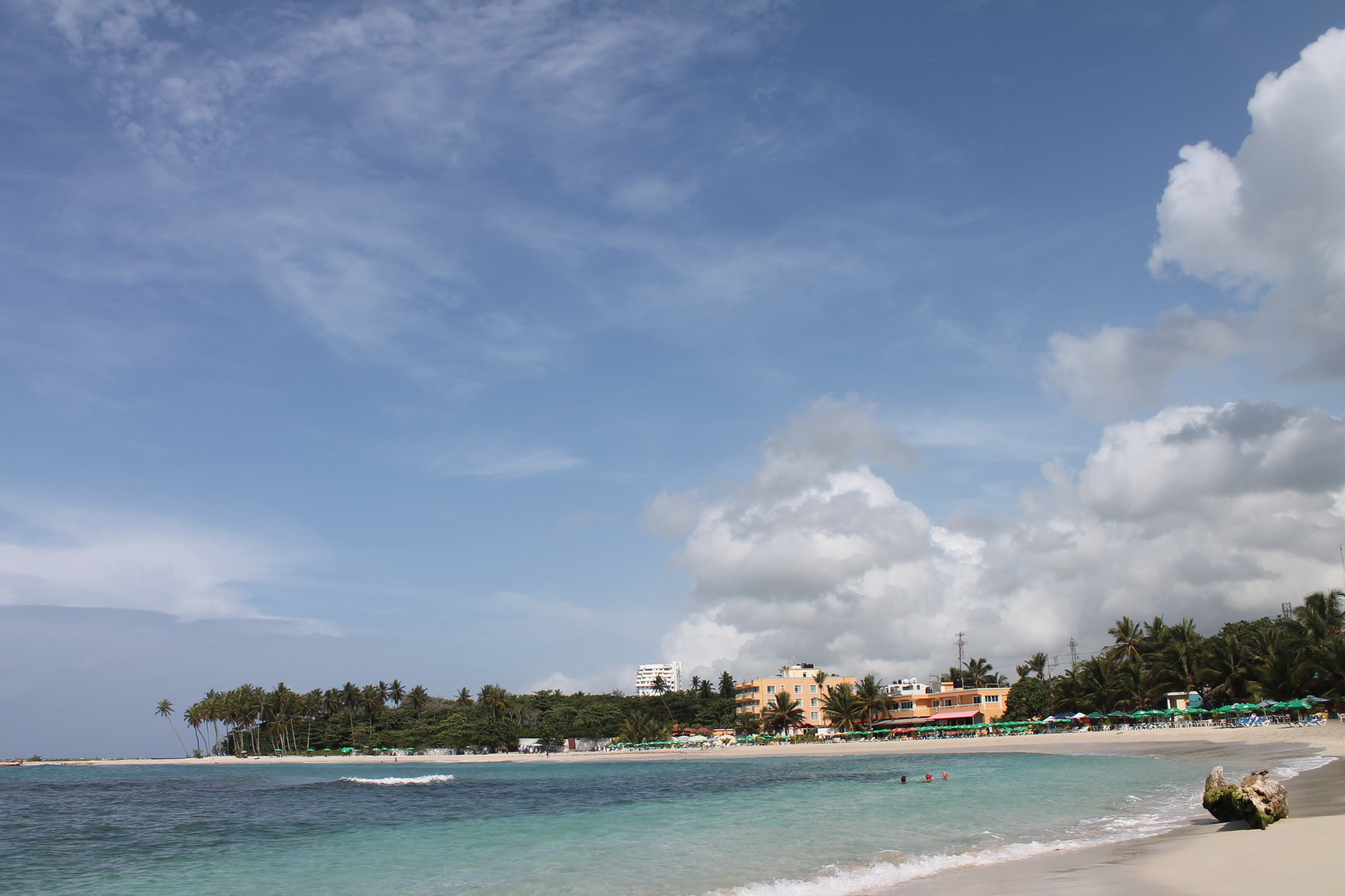 The public beach in the center of Juan Dolio.